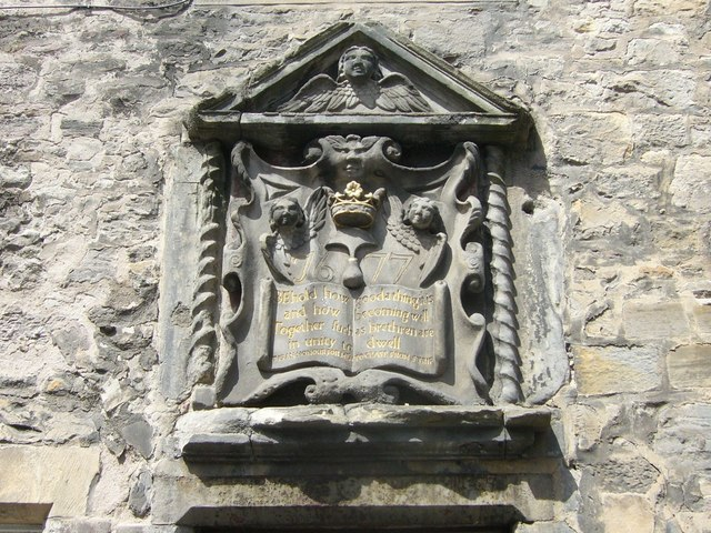 Shoemakers Land, Canongate This sculptured shield marks the former site of the long-vanished guildhall of the Edinburgh Cordiners (shoemakers). It depicts their arms, namely a crown and the paring knife of St.Crispin, patron saint of shoemakers, over an open Bible displaying the words of the 133rd psalm: "Behold how good a thing it is and how becoming well, together such as brethren are, in unity to dwell". For this reason, the building became popularly known as "Bible Land"